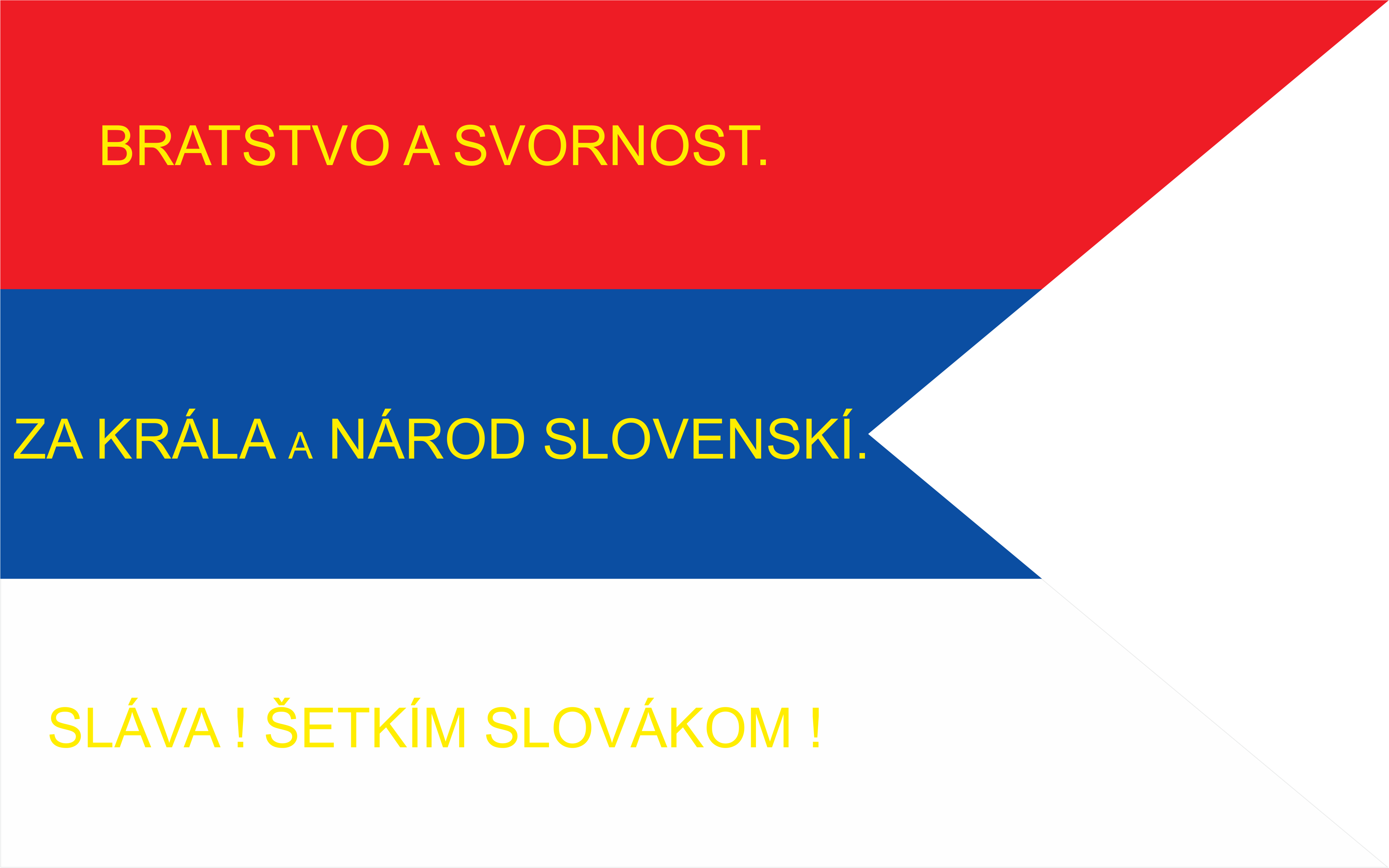 The Slovak flag used during revolution in 1848/1849. Later on became the flag of the Slovak National Council.